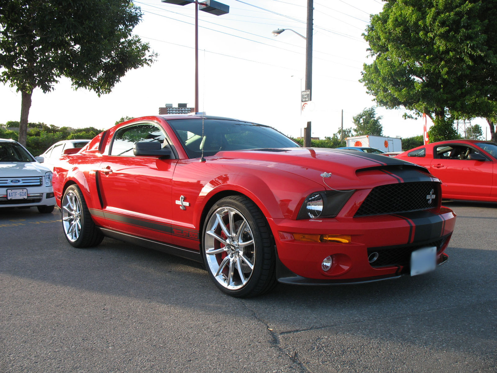 2007 Shelby Mustang GT500 Super Snake